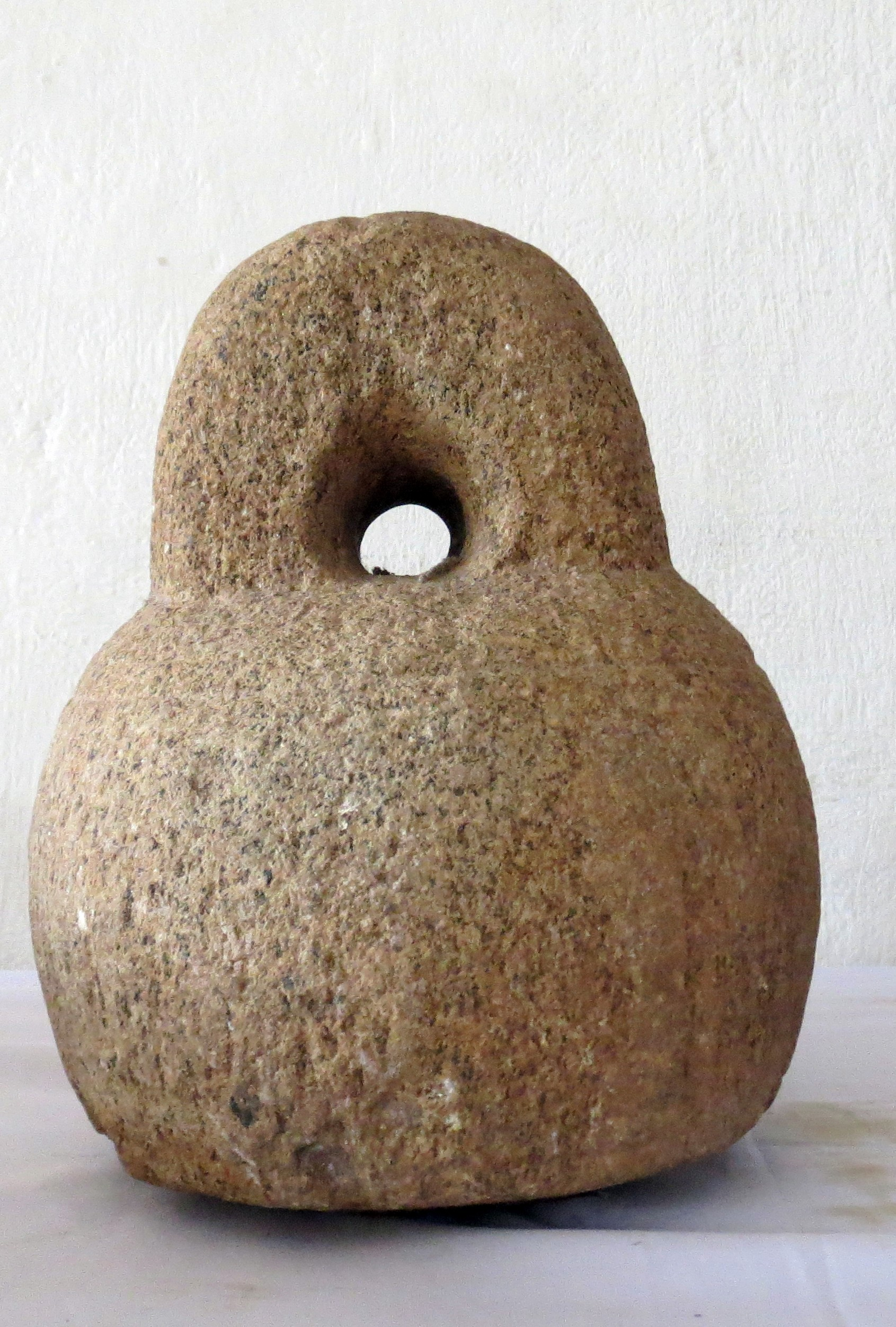 This stone piece is an old British measuring unit called Maund (Tamil:மணு)